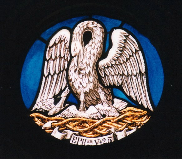 Pelican stained-glass window, Grace Episcopal Church, Amherst, Massachusetts